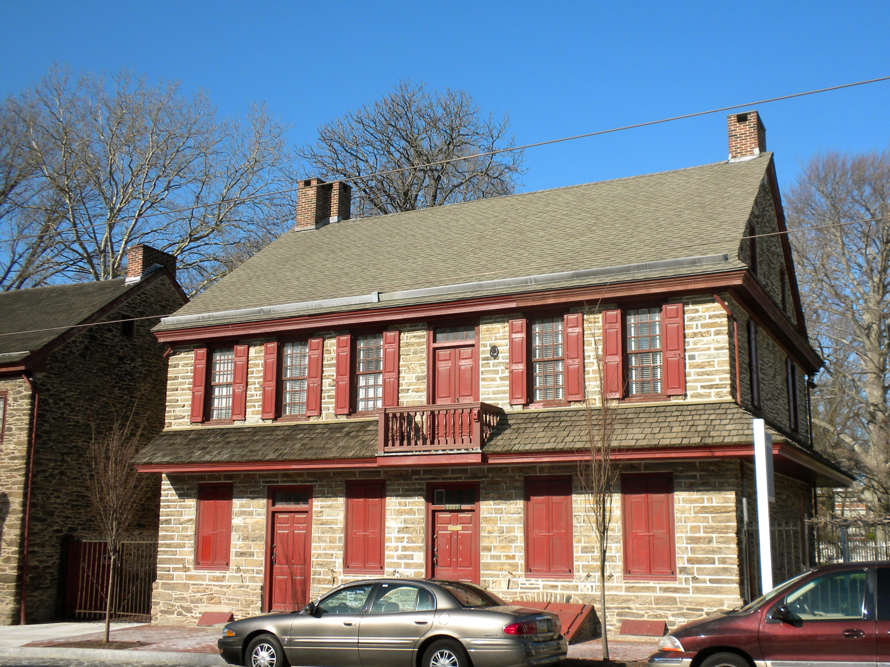 Grumblethorpe, as restored. The family home of the Wisters. On the NRHP since March 16, 1972. At 5267 Germantown Avenue, Germantown, Philadelphia. Next door to the Grumblethorpe tennant house which is also on the NRHP.